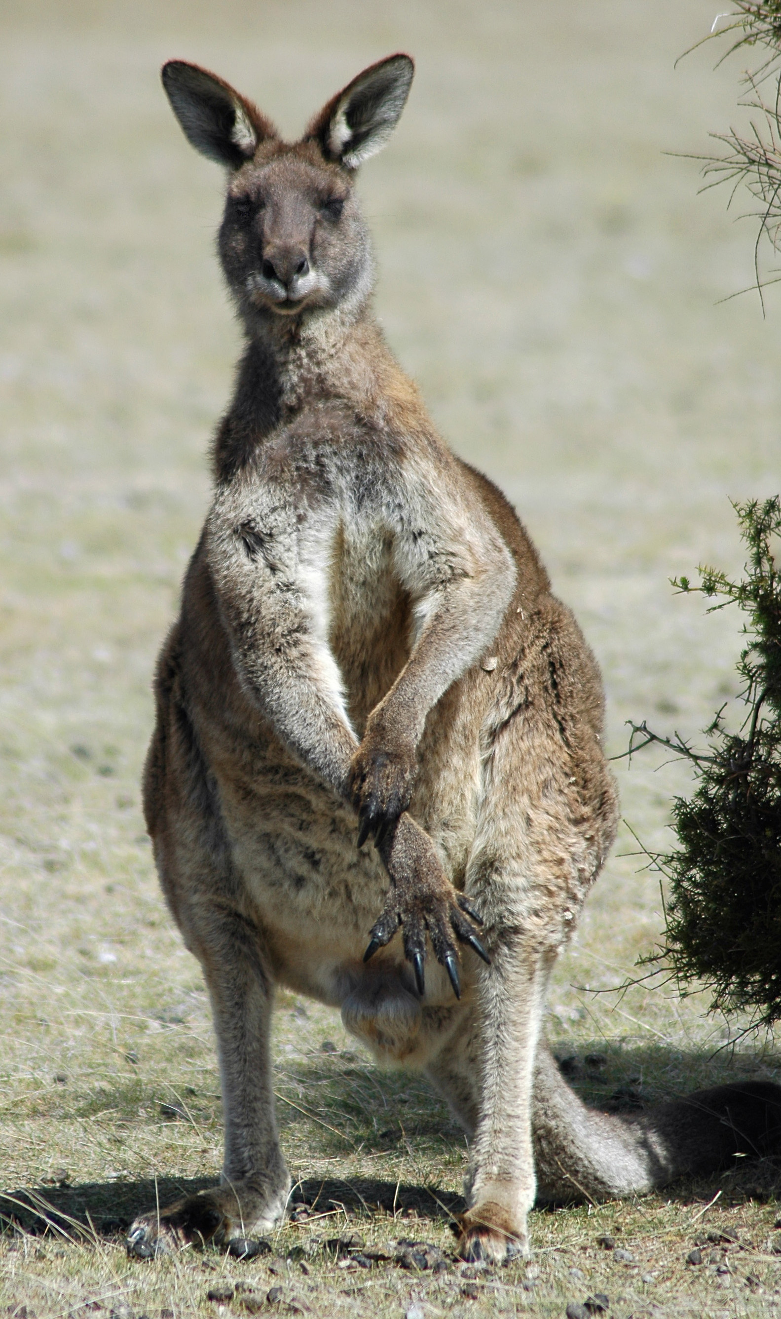 Eastern Grey Kangaroo, (Macropus giganteus), Maria Island, Tasmania